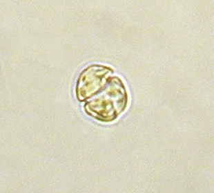 North-West Black Sea, coastal waters, at a depth of 0.5 metre